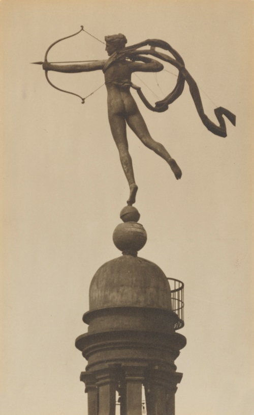 Statue of Diana on top of Madison Square Garden, in Manhattan, New York City